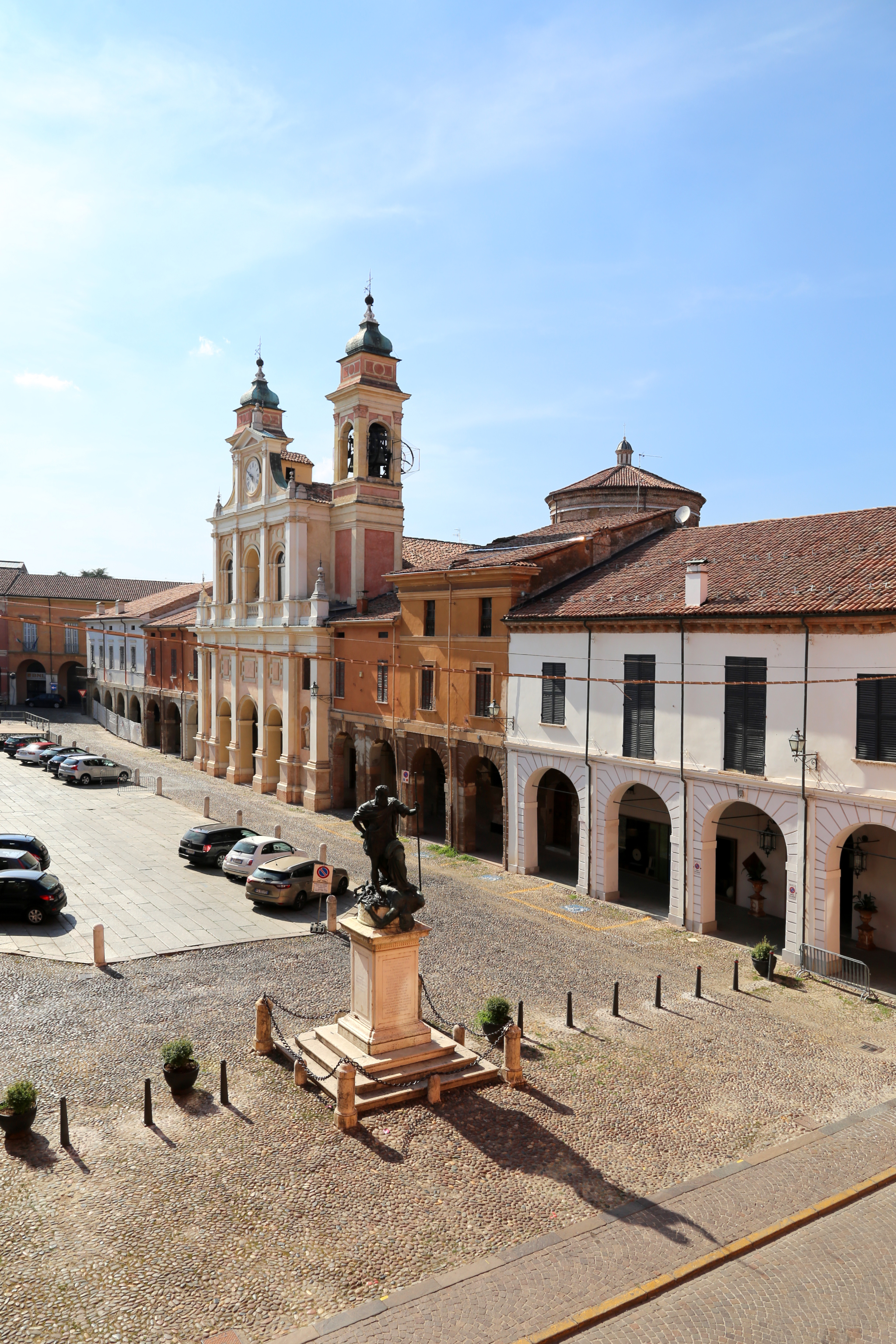 Guastalla